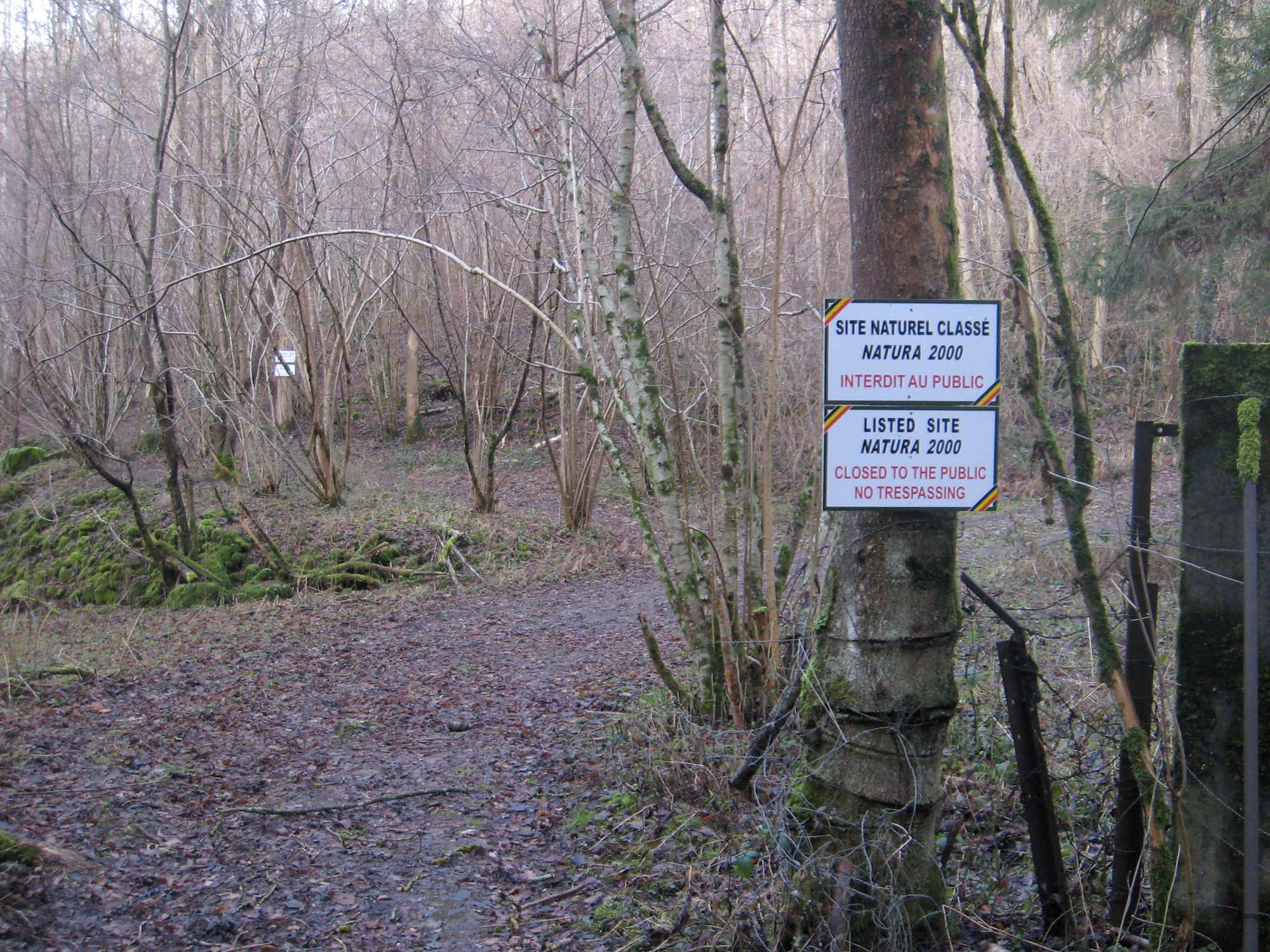 A sign at the edge of a Natura 2000 location near the river Lesse in Belgium.